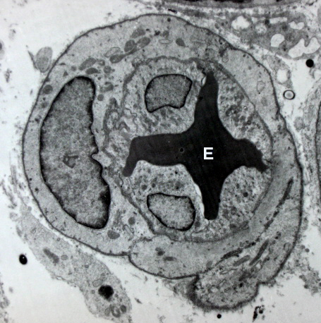 Transmission electron micrograph of a microvessel showing pericytes lining the outer surface of endothelial cells which are encircling an erythrocyte (E).